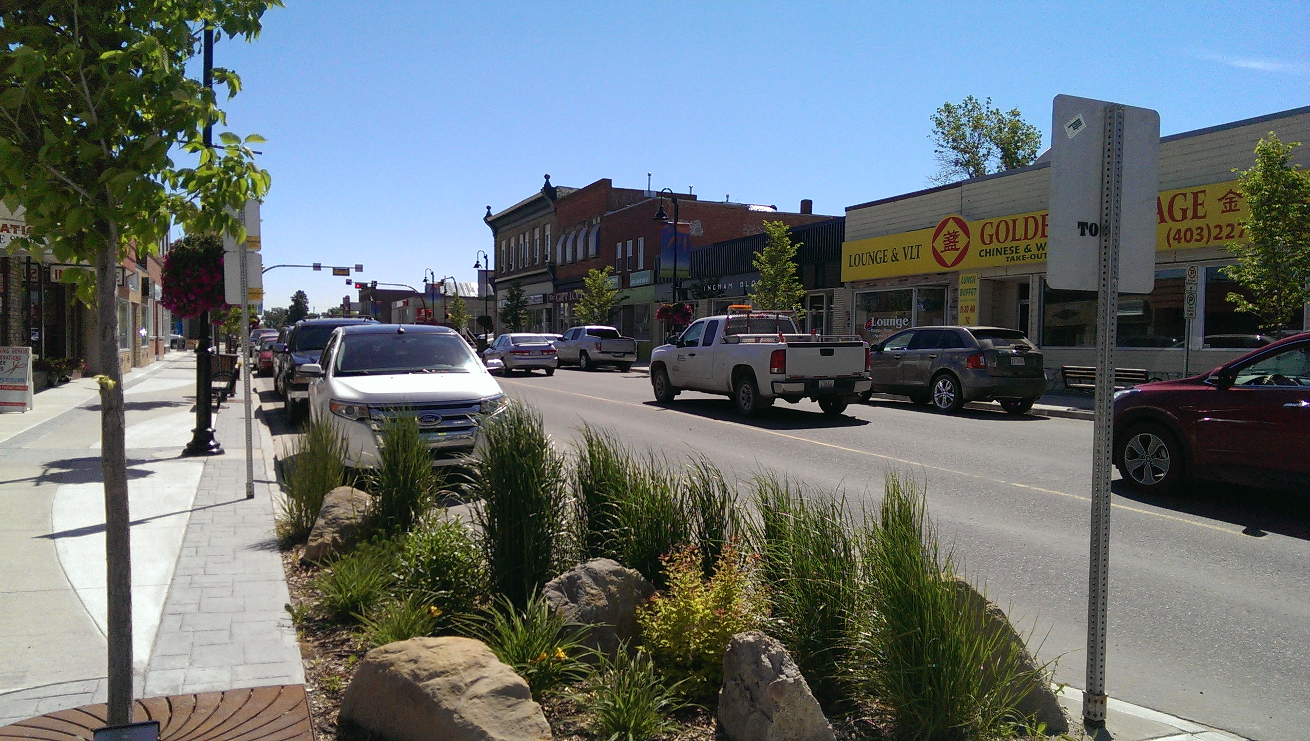 Downtown Innisfail